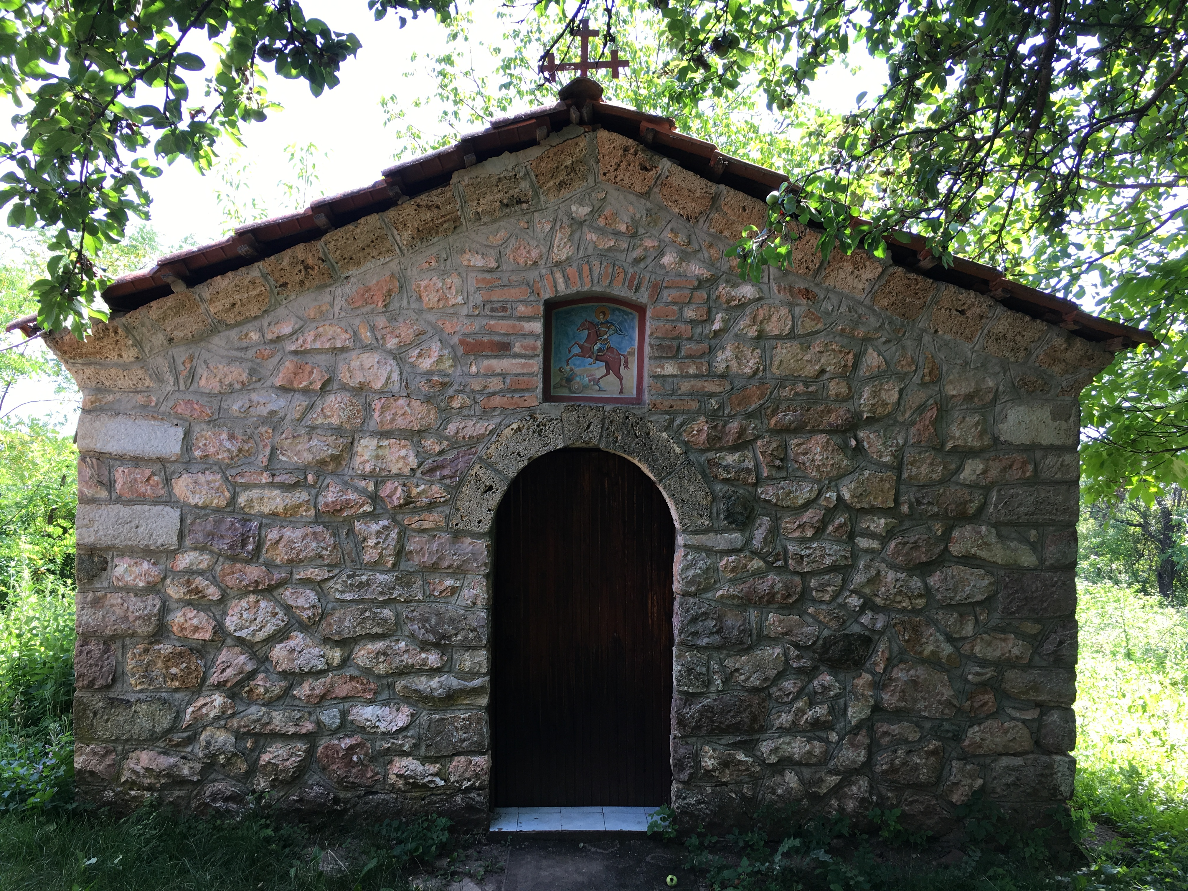 St. Demetrious Church in the village of Vevčani